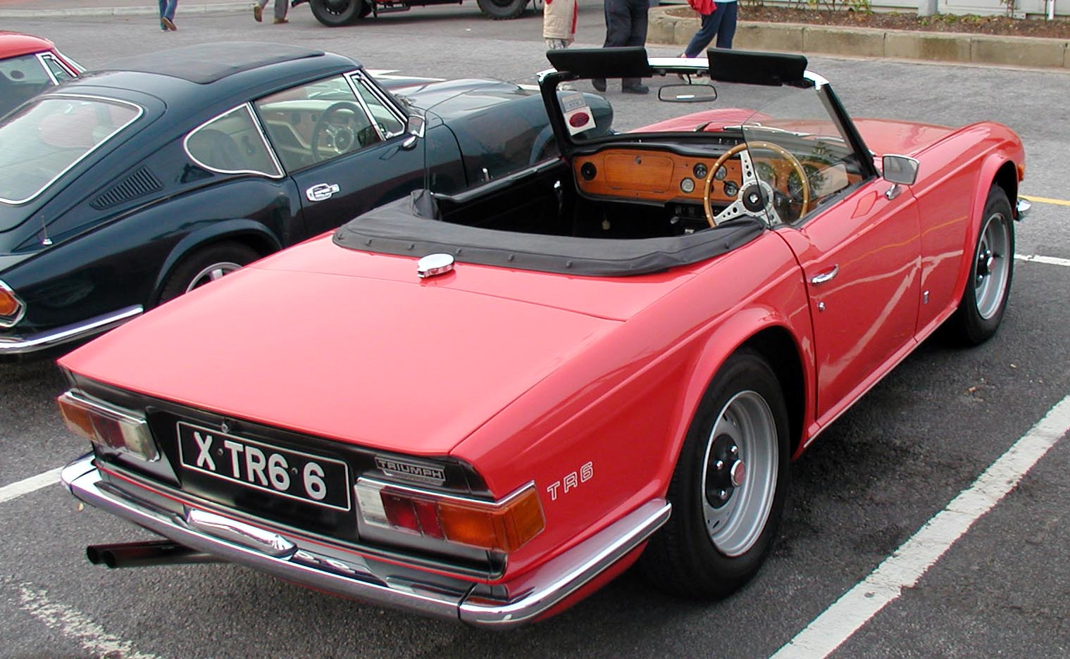 1972 Triumph TR6 at The Great West Road Run rally, Aust, Bristol, England.